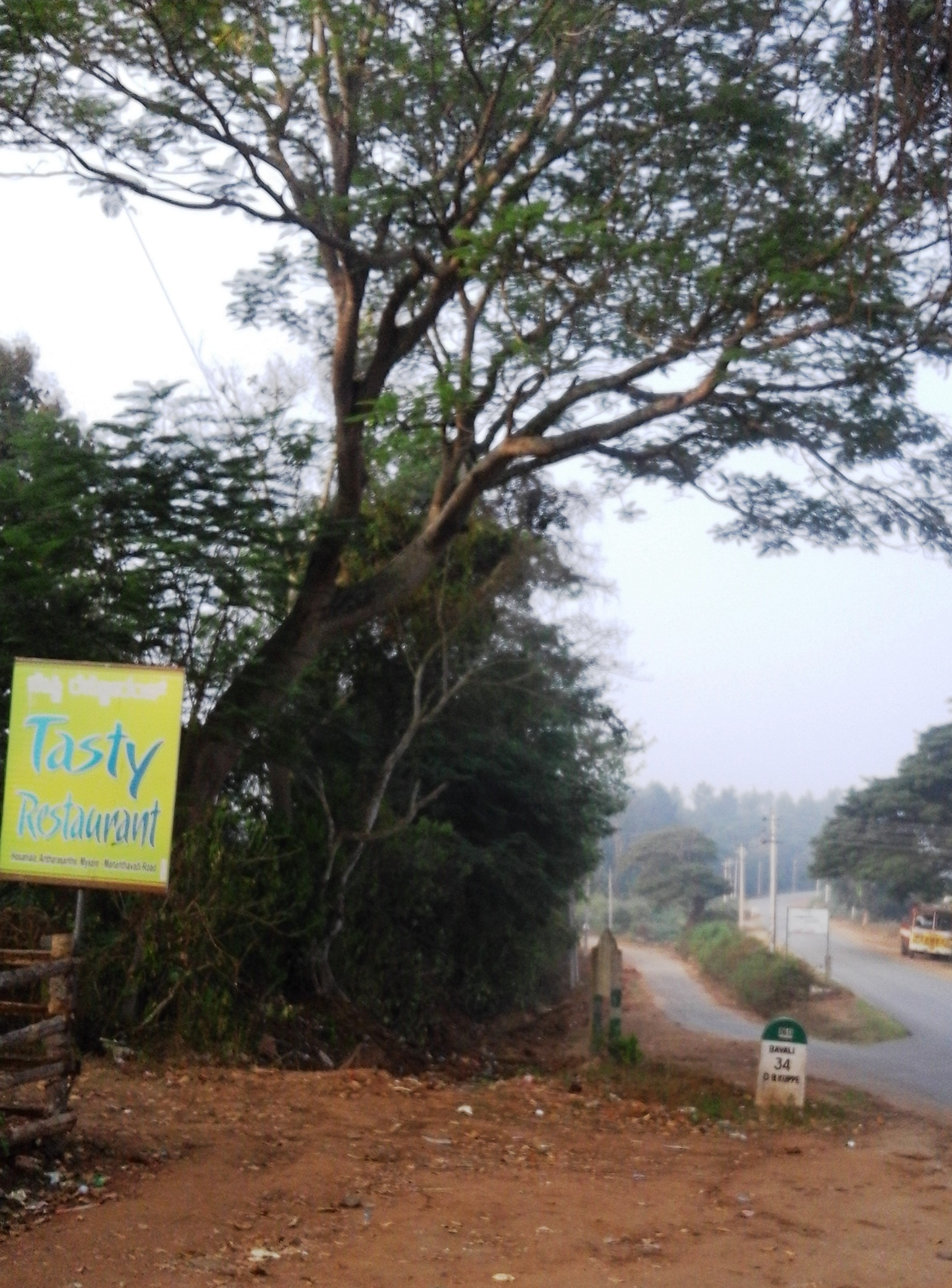 Heggadadevanakote, Mysore district, Karnataka state, India.